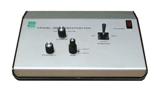 This image was taken on March 28, 2007 by Mike Sorensen and contributed to public domain.